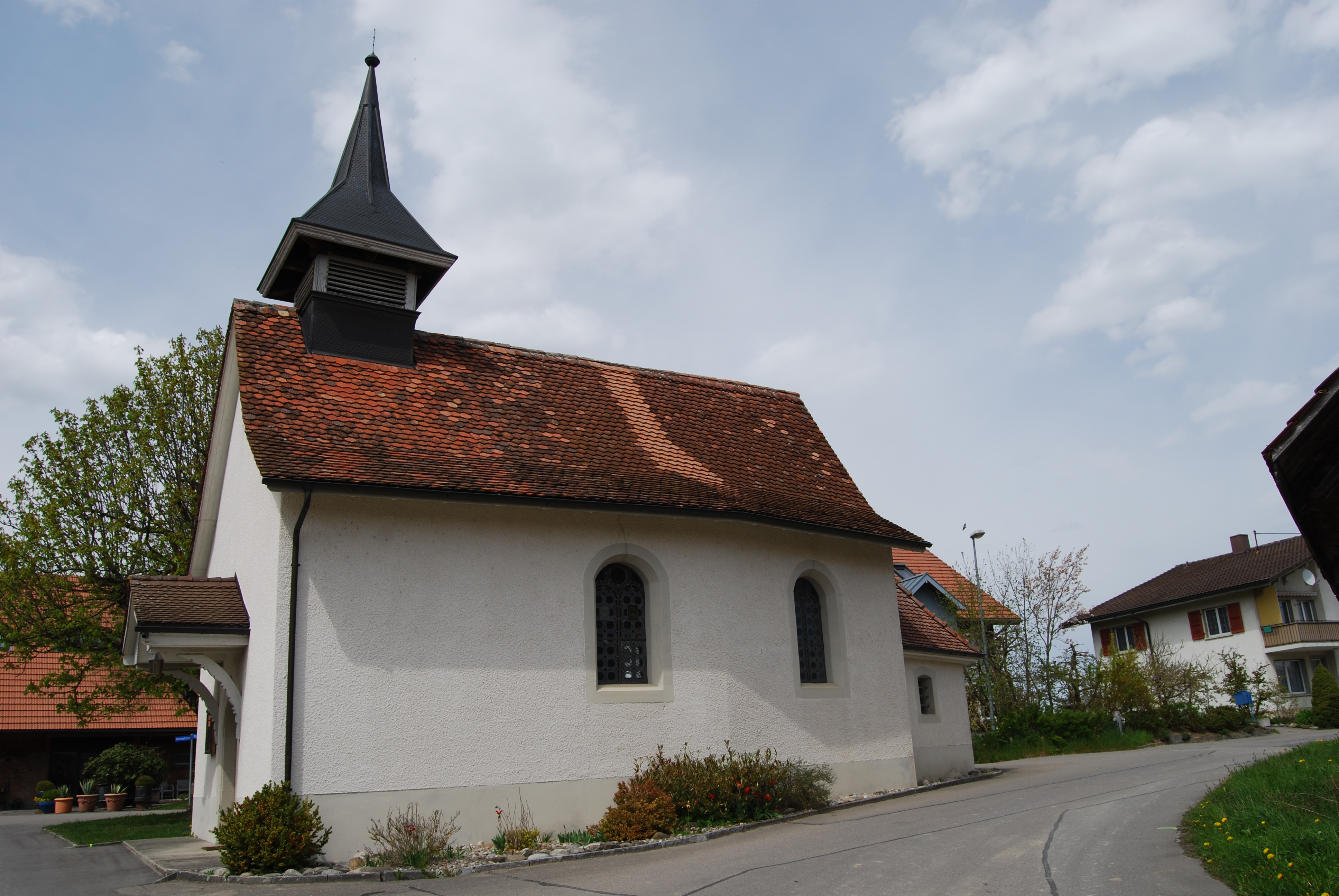 Chapel of Wallenbuch, municipality Gurmels, canton of Fribourg, Switzerland